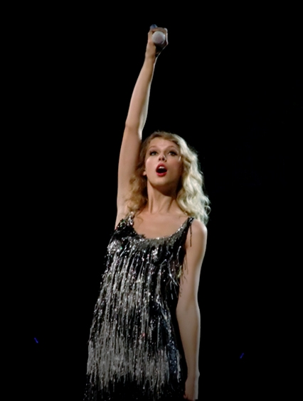 Taylor Swift at her Australian Tour in February 2010